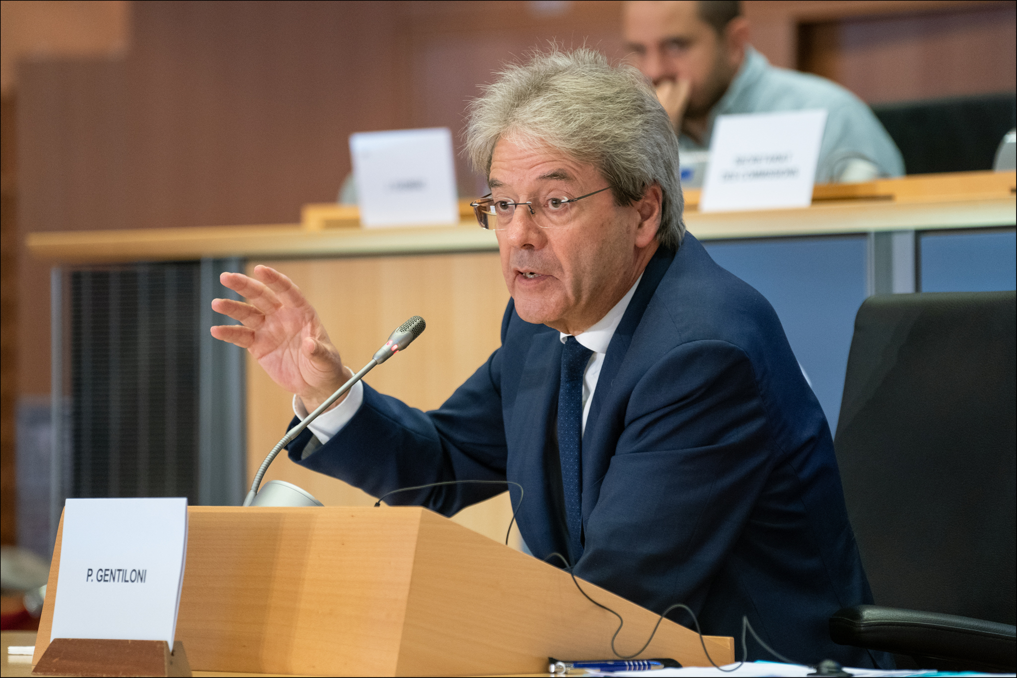 Before the European Parliament can vote the new European Commission led by Ursula von der Leyen into office, parliamentary committees will assess the suitability of commissioners-designate. On 23-26 May, more than 200,000,000 people in 28 EU countries went to the polls to elect members of the European Parliament, giving them a strong democratic mandate, including voting into office the new European Commission and examining the competencies and abilities of its commissioners-designate. Elected members of the European Parliament will also listen to their ideas and will assess their willingness to take concrete actions on the issues that Europeans care about. Each candidate commissioner is invited for a live-streamed, three-hour hearing in front of the committee or committees responsible for their proposed portfolio. The hearings will take place between Monday 30 September and Tuesday 8 October. This photo is free to use under Creative Commons license CC-BY-4.0 and must be credited: "CC-BY-4.0: © European Union 2019 – Source: EP". No model release form if applicable. For bigger HR files please contact: webcom-flickr(AT)